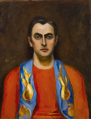 Gold and Blue Bolero by Walt Kuhn, 1946, oil on canvas, 24 x 20 inches, Saint Louis Art Museum